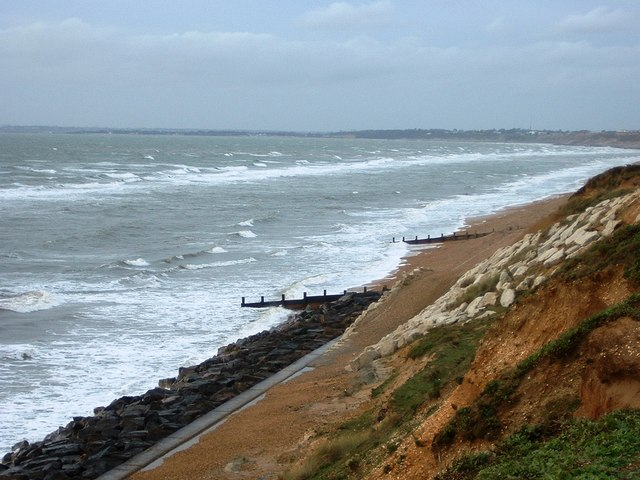 View from Hordle Cliff towards Mudeford Viewed from the car park.